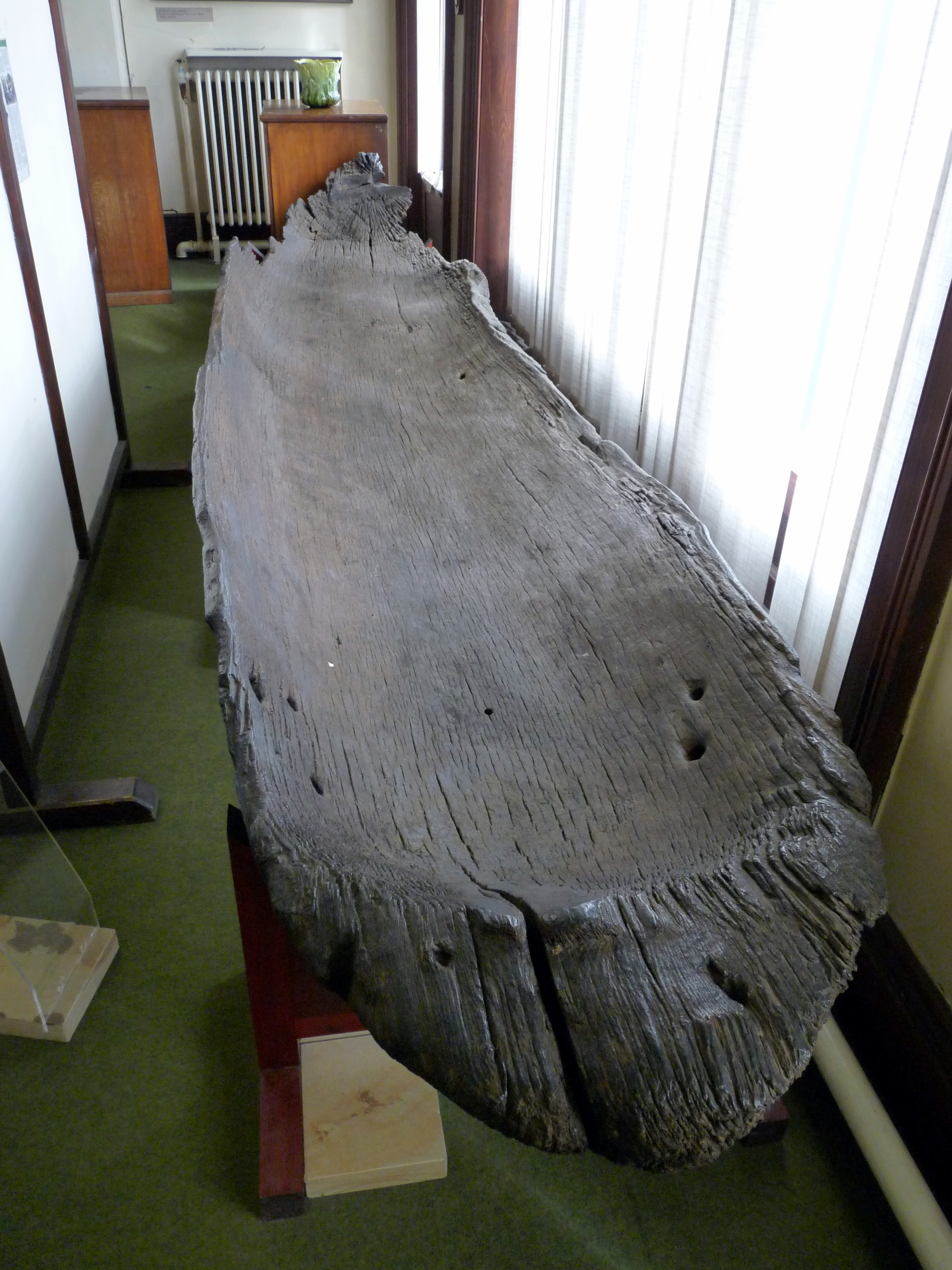 Dugout canoe dating from 535 A.D., found buried in a field near Crossens (Merseyside, England) in 1899, near what was once the northern shore of Martin Mere. Now on display in the Botanic Gardens Museum, Churchtown.